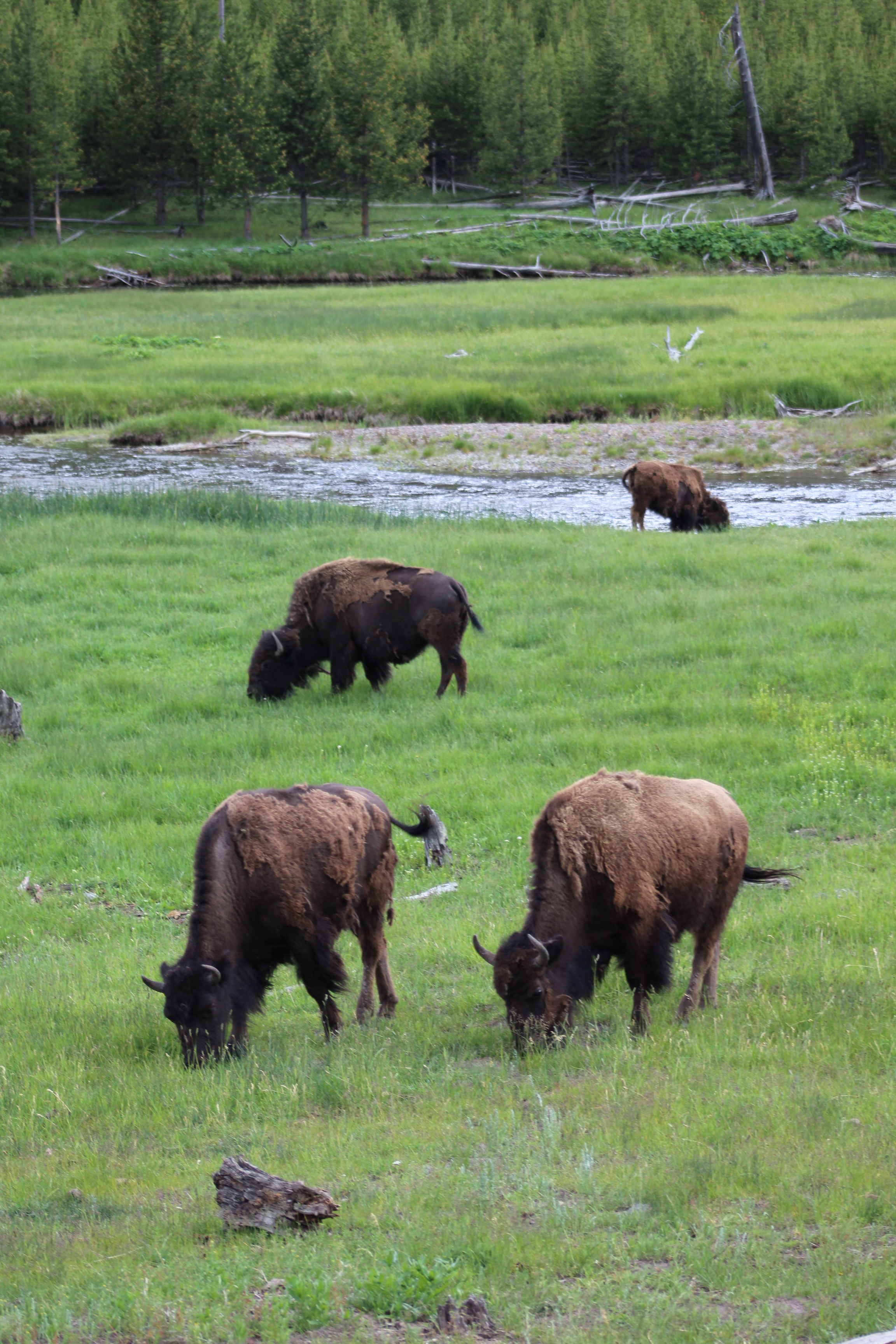 Buffalo grazing near a river in Yellowstone National Park